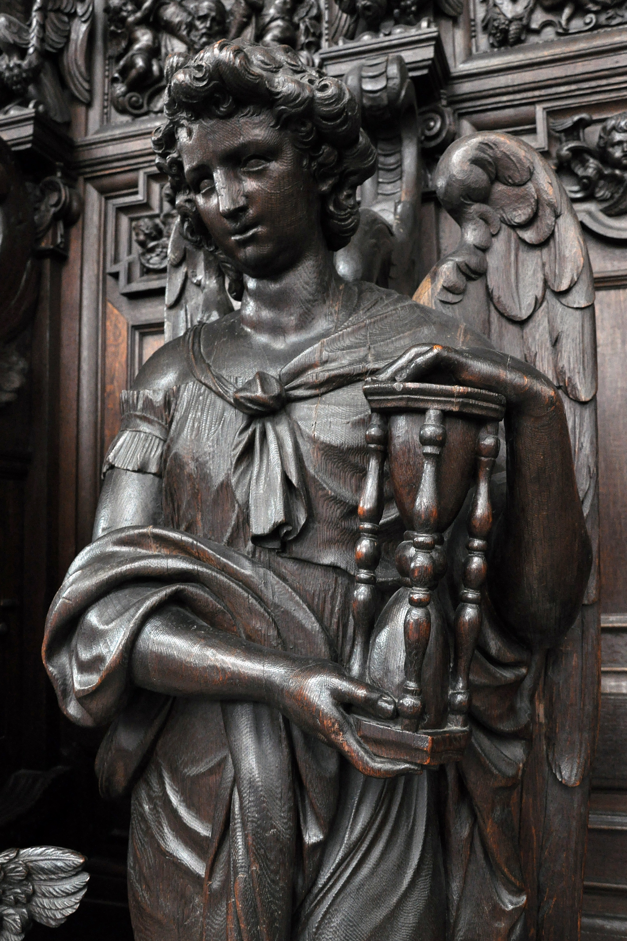 A confessional in Sint-Pauluskerk,in Antwerp. Wood carving by Pieter Verbrugghen I, 17th century (between 1658 and 1660). Detail: an angel holding an hourglass, as a symbol of Time.